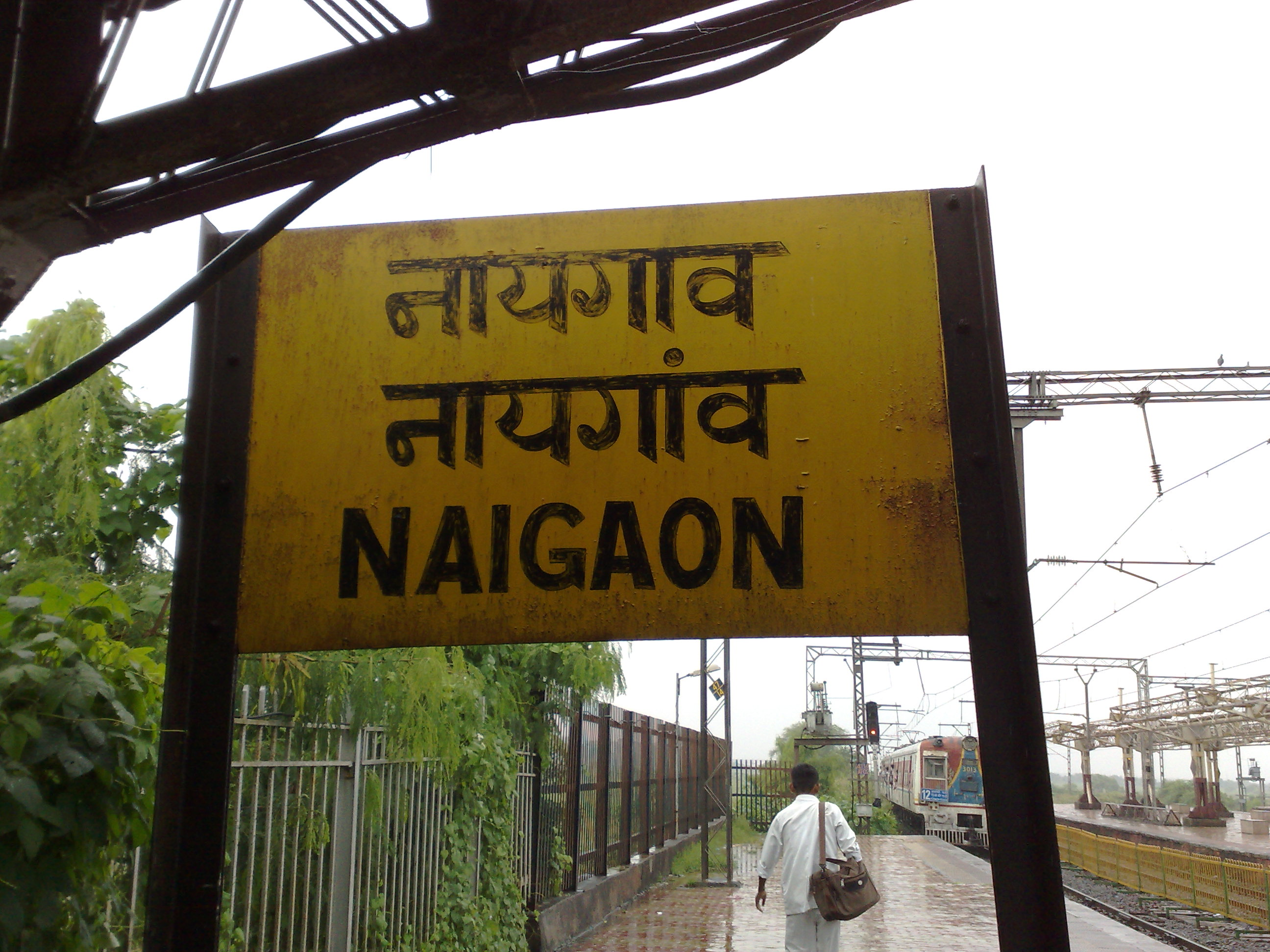 Naigaon stationboard